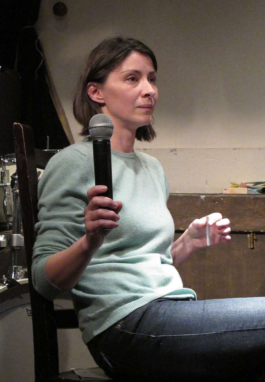 Russian music critic Yulia Bederova (b. 1971)